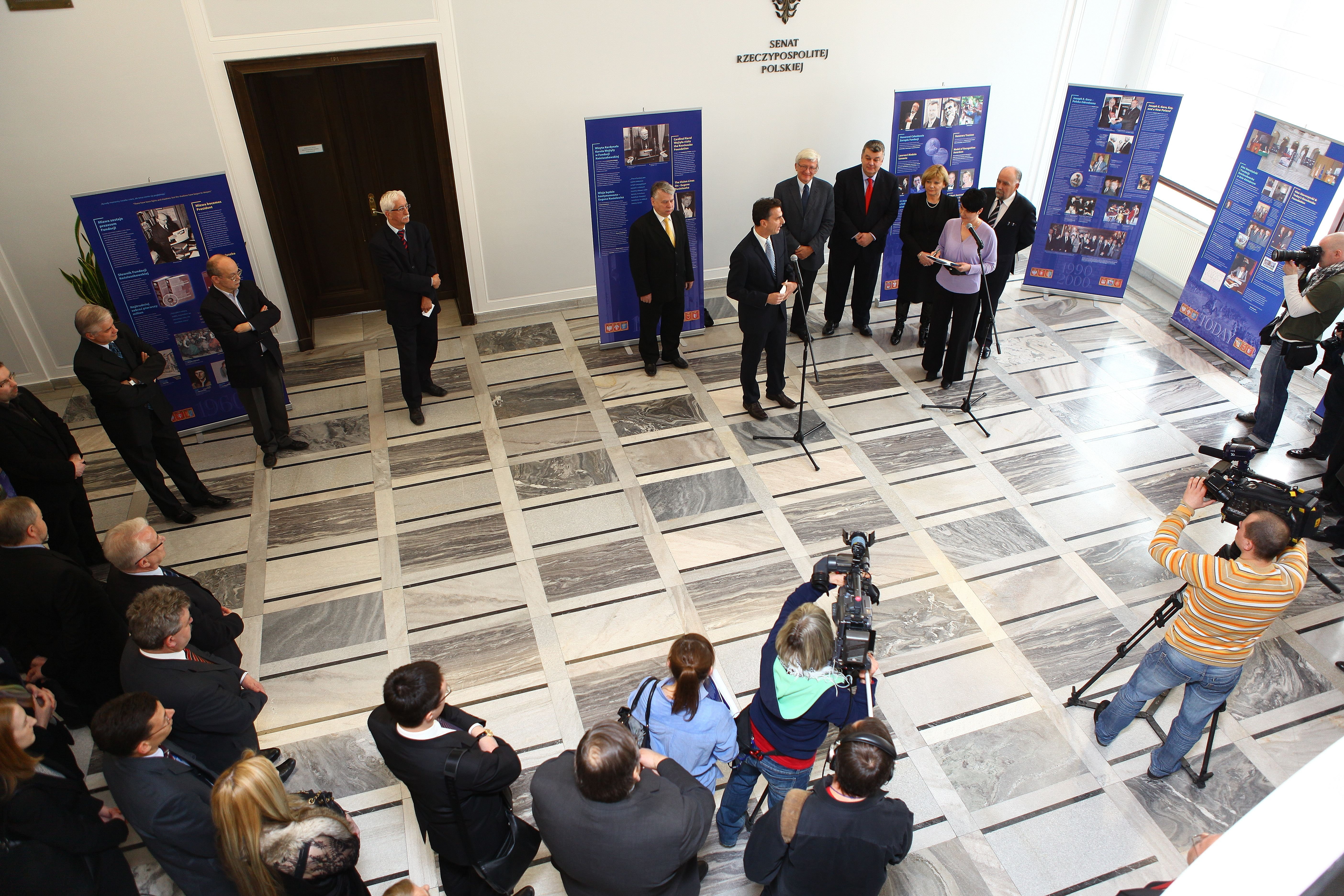 Opening of the exibition " The Kosciuszko Foundation - the American Center of Polish Culture" in the Polish Senate